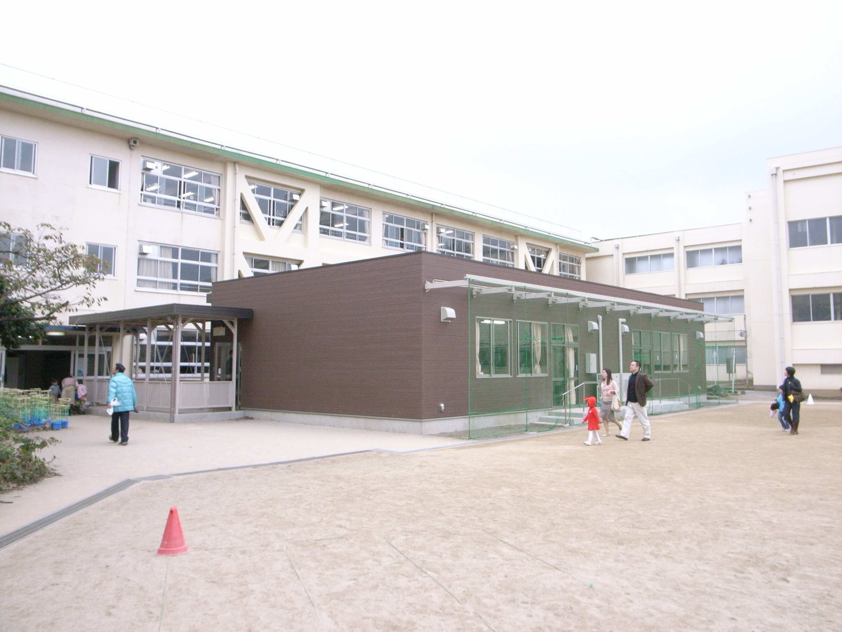 Nakanogi Shogakko, Funabashi, Chiba